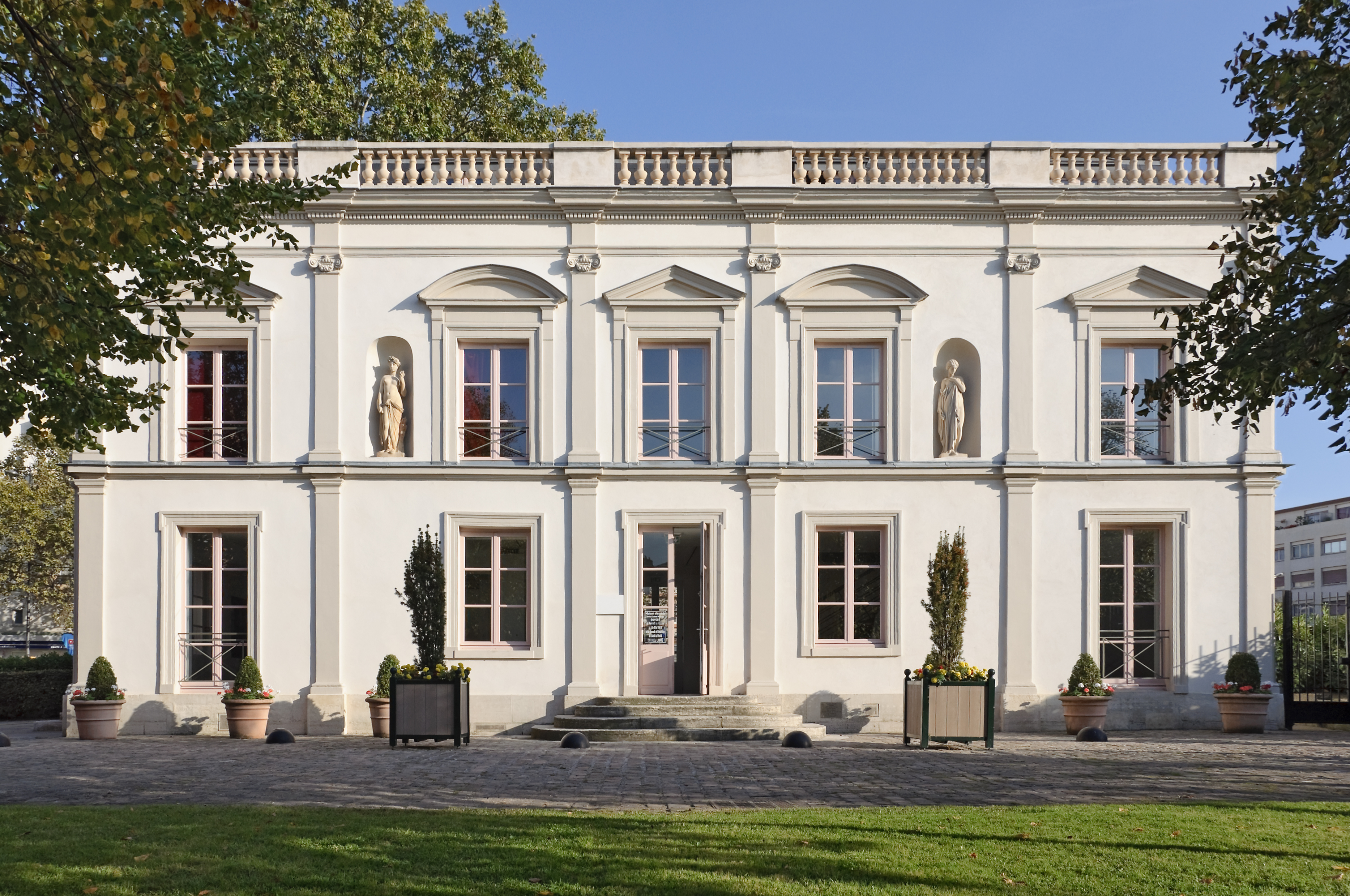 THe Maison des Arts ('House of Arts') in Malakoff, Hauts-de-Seine, France. .